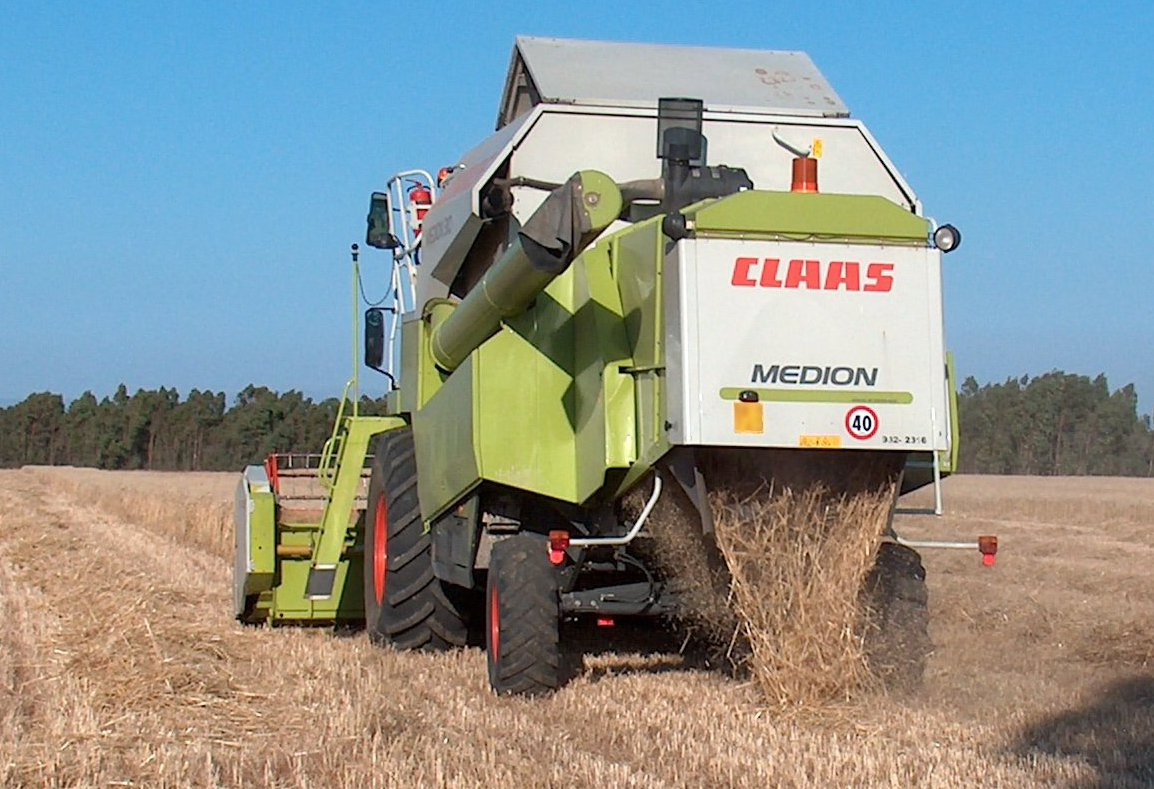 Claas combine harvester Medion – Professional Institute of Agriculture and Environment "Cettolini" of Cagliari (Sardinia, Italy) – Associated School of Villacidro (Sardinia, Italy)